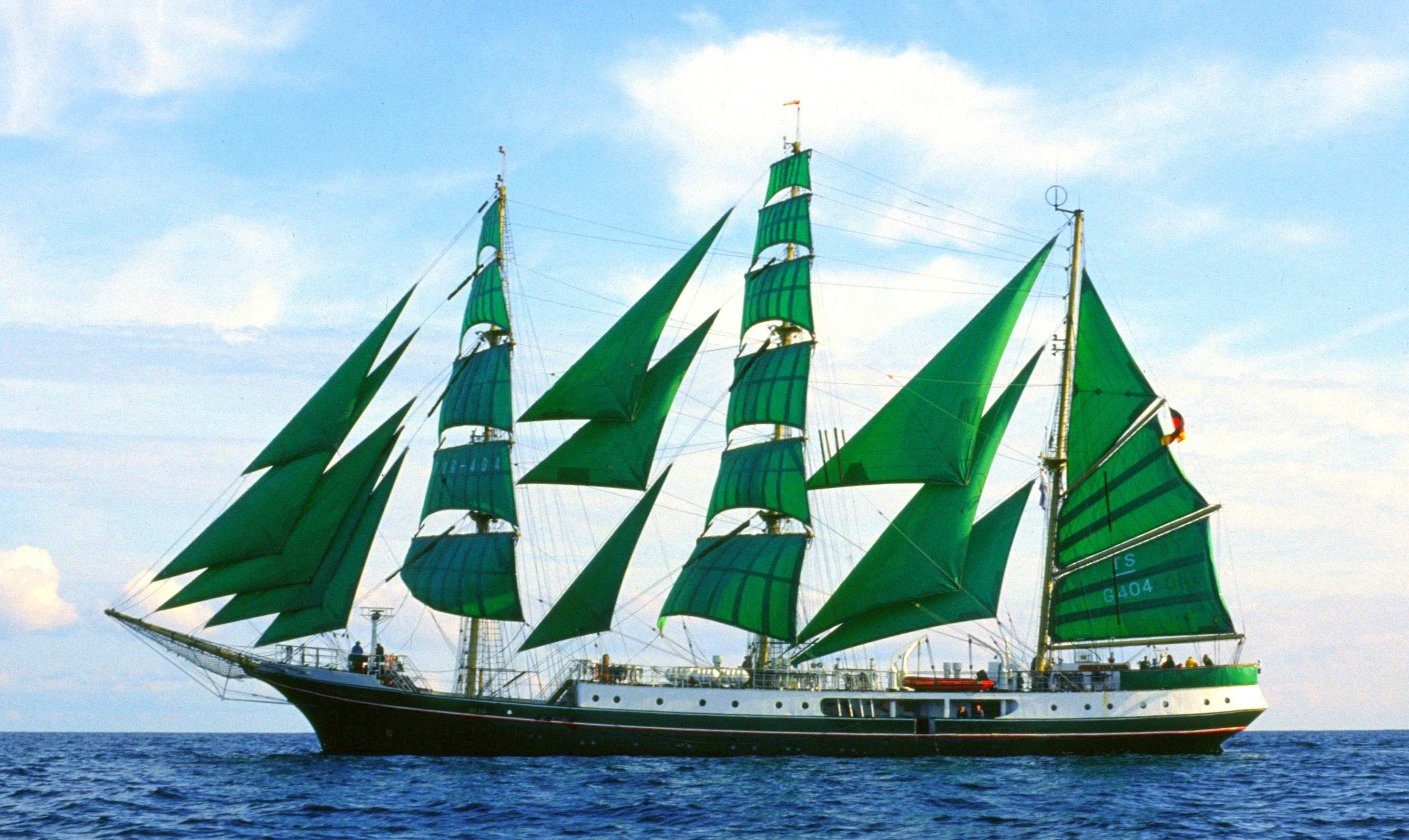 Tall Ship Alexander von Humboldt, all 25 sails up